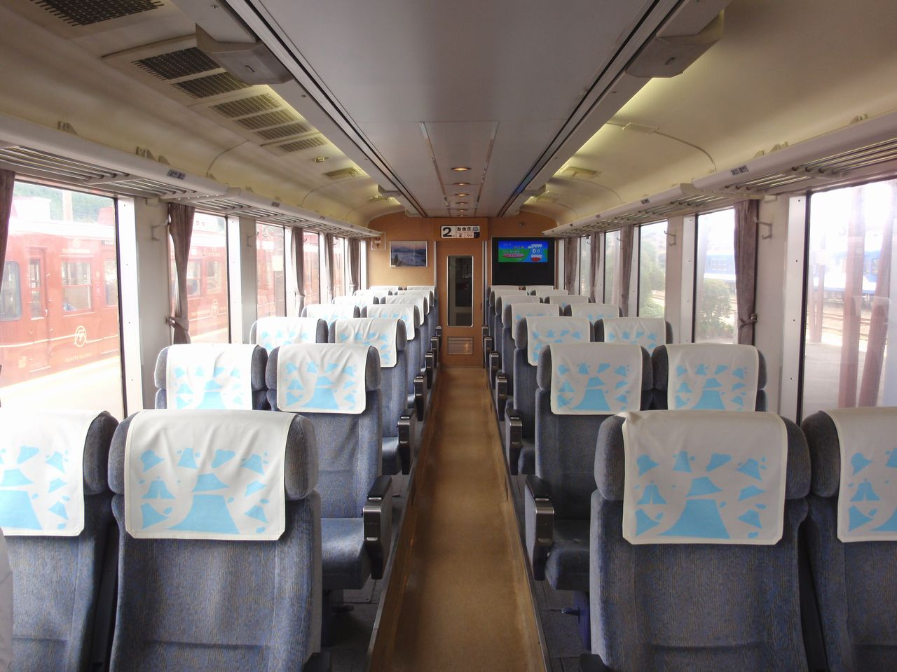 The interior of car 2 of a Fujikyu 2000 series EMU at Kawaguchiko Station